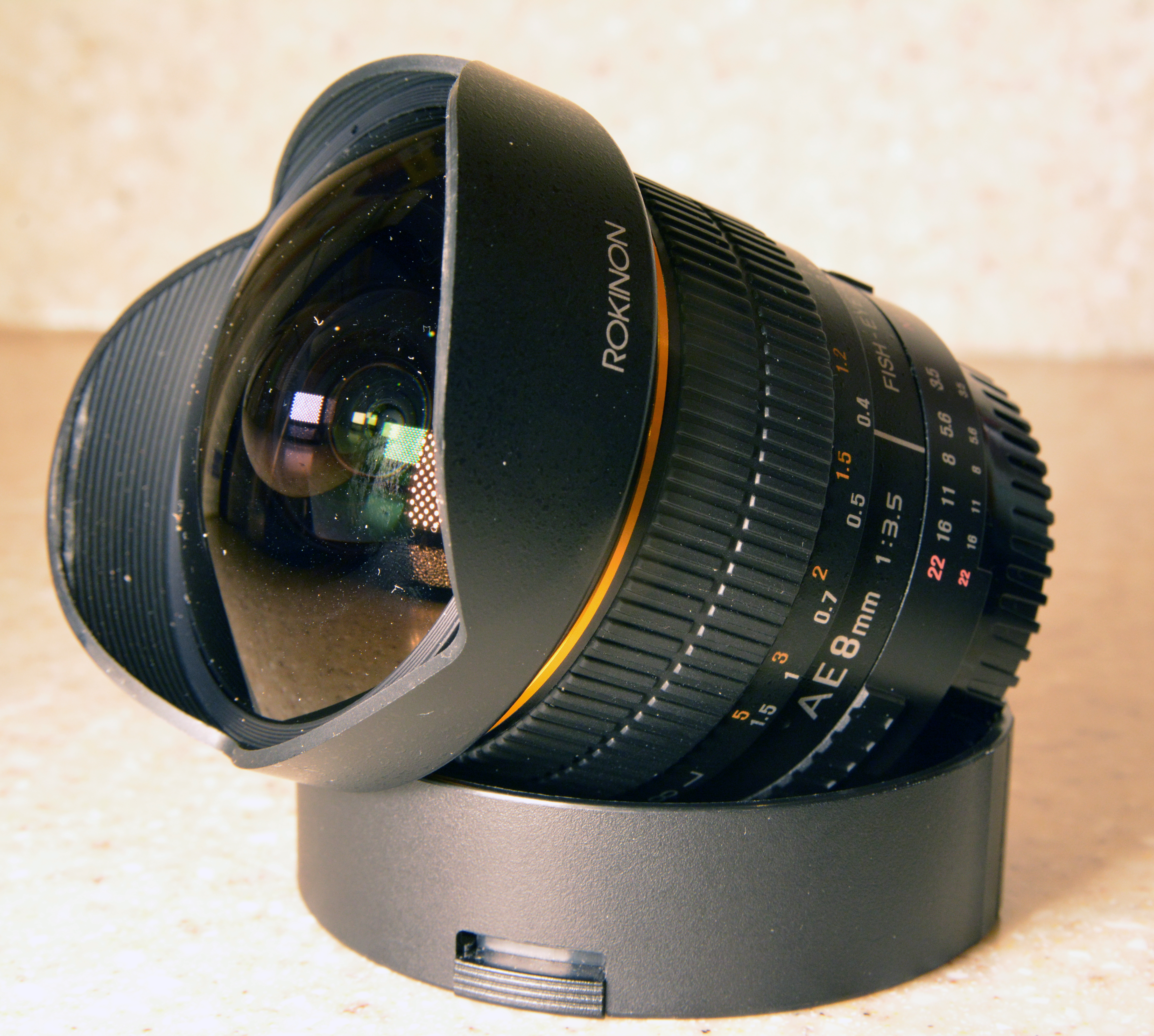 Rokinon 8mm fisheye lens, made by Samyang